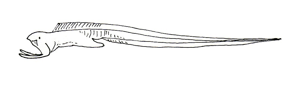 Onejaw (Monognathus sp.)